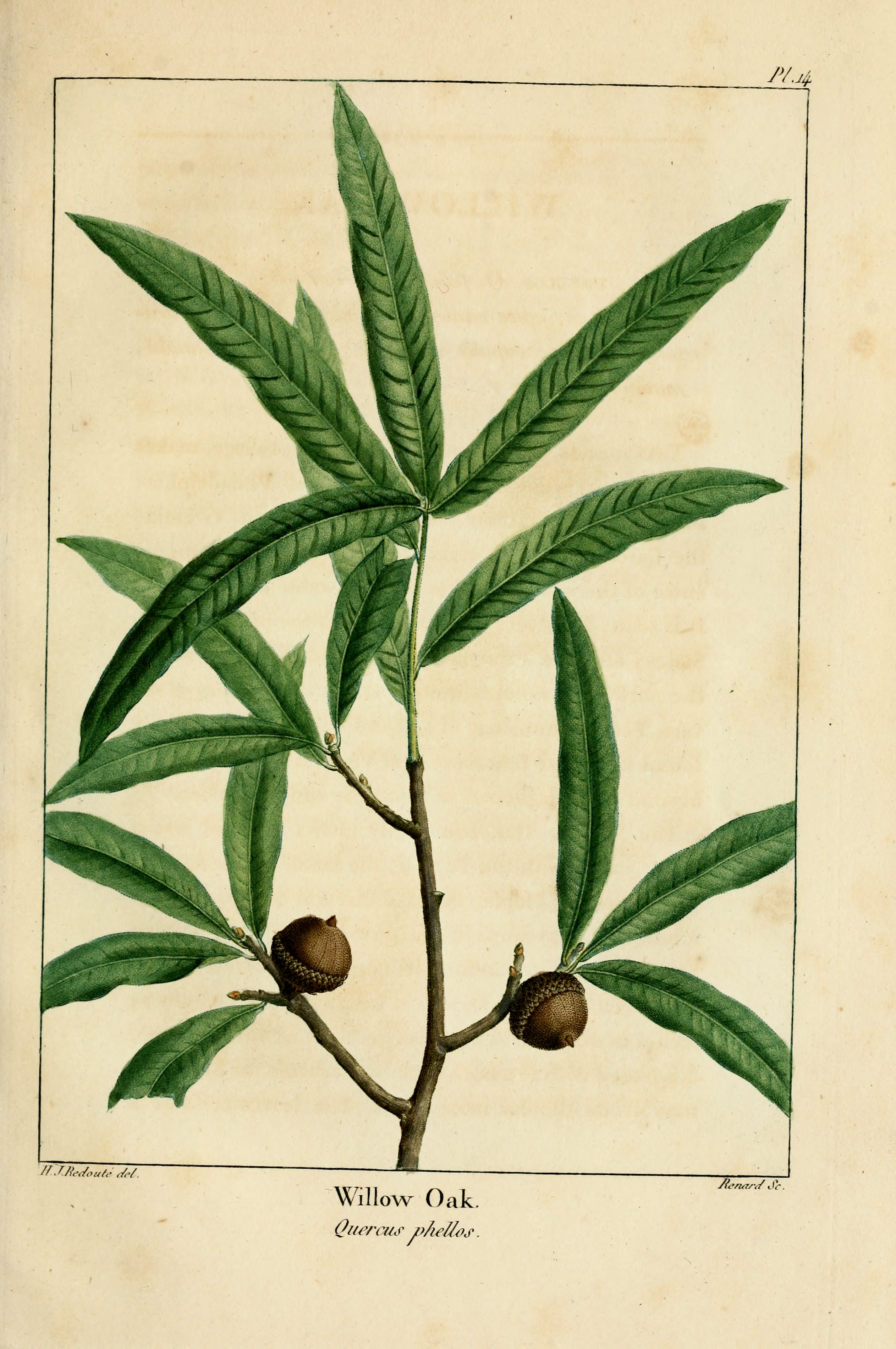 Quercus phellos - willow oak (Chêne saule)